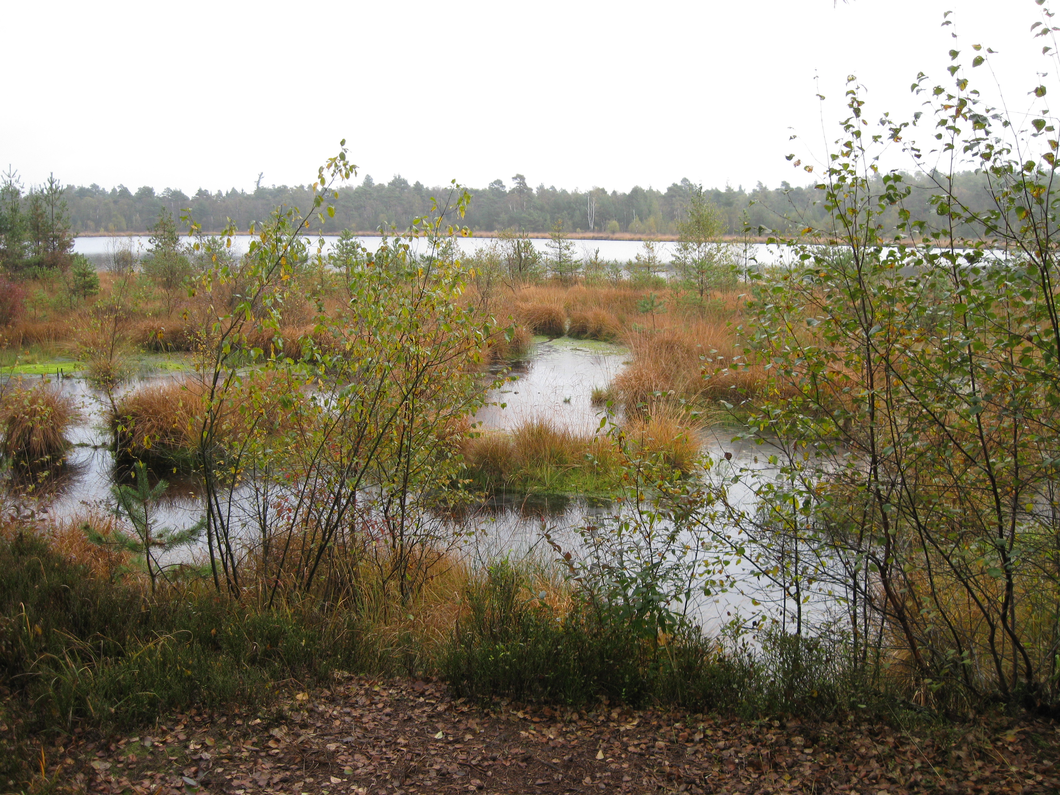 Grundloses Moor, Germany